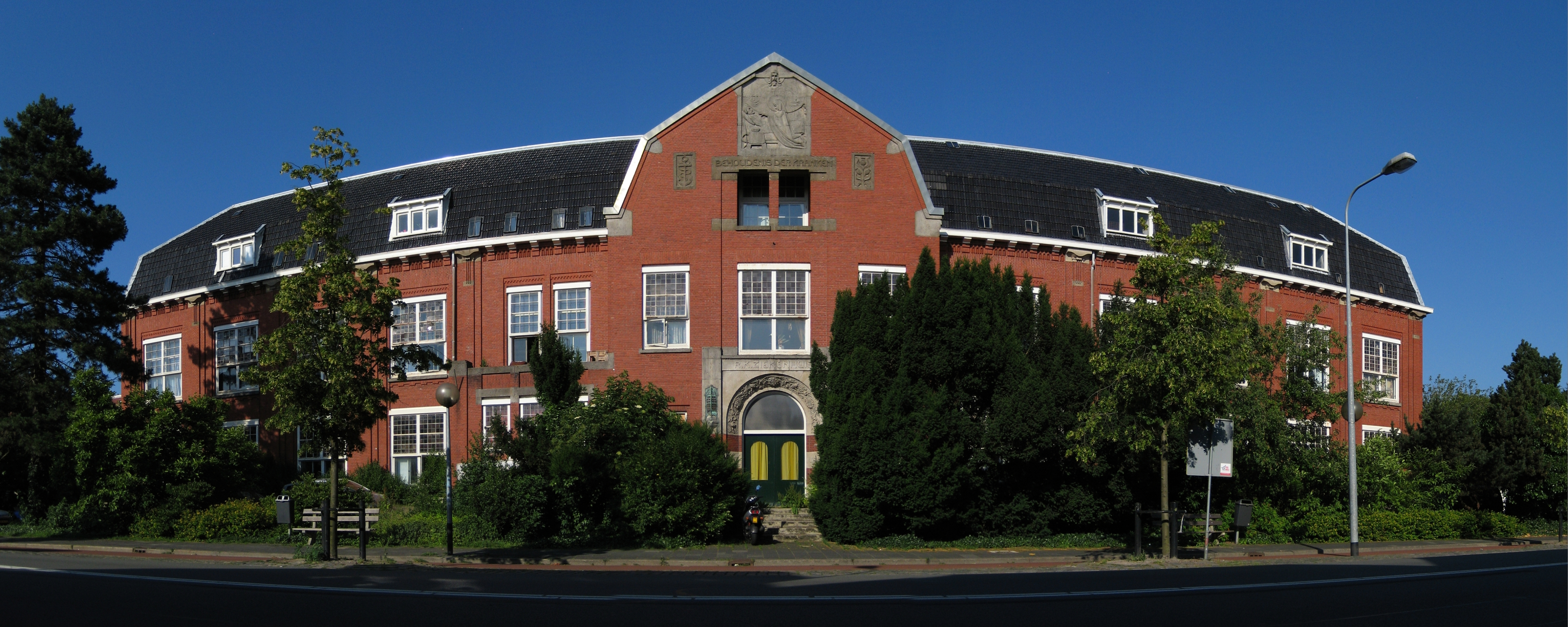 Former Roman Catholic hospital (1923) in the Dutch city of Groningen.